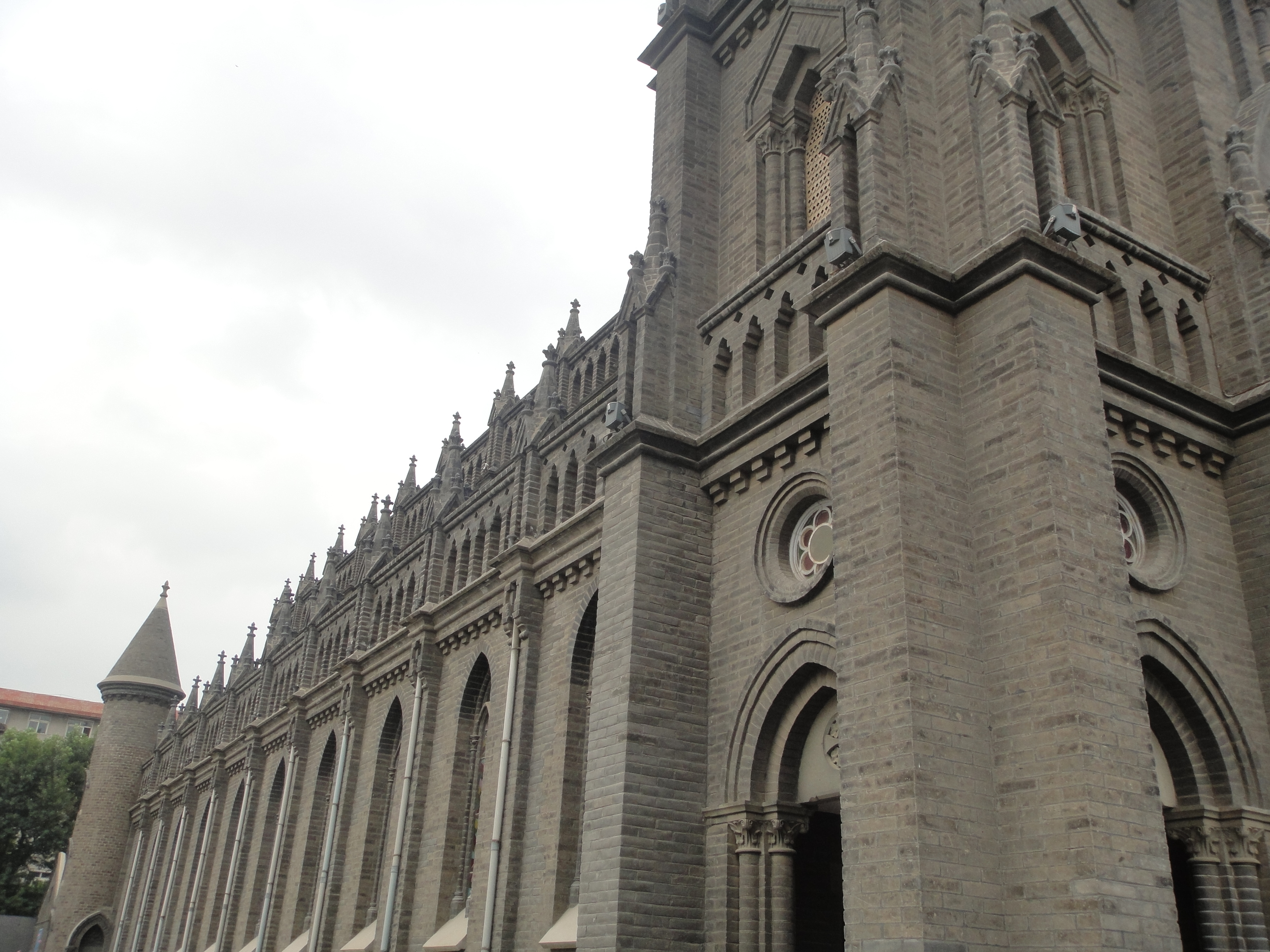 Sacred Heart Cathedral Side View